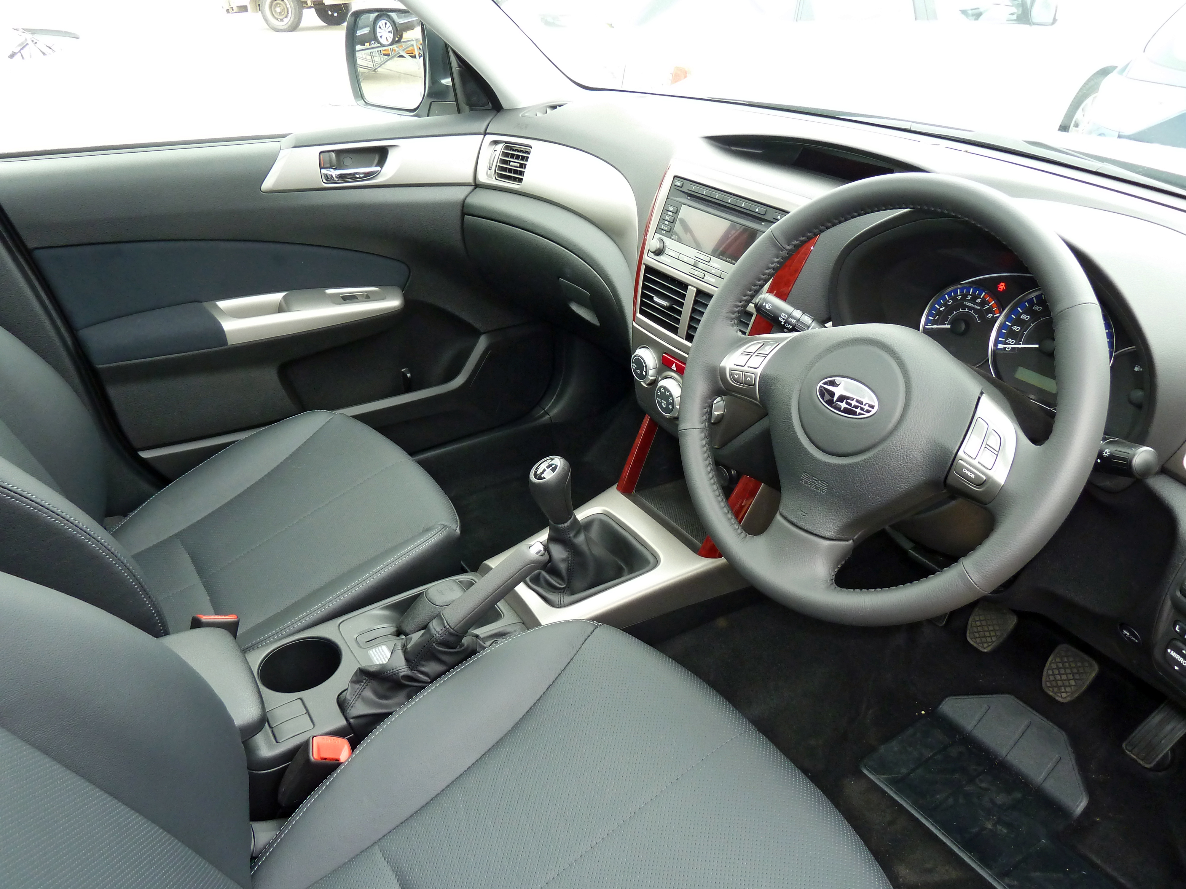 2010 Subaru Forester (SH9 MY10) XS Premium wagon. Photographed at Suttons Subaru, Chullora, New South Wales, Australia.